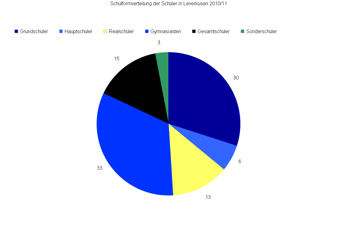 Distribution of students within Leverkusen in form of debt (in percent) 2010/11